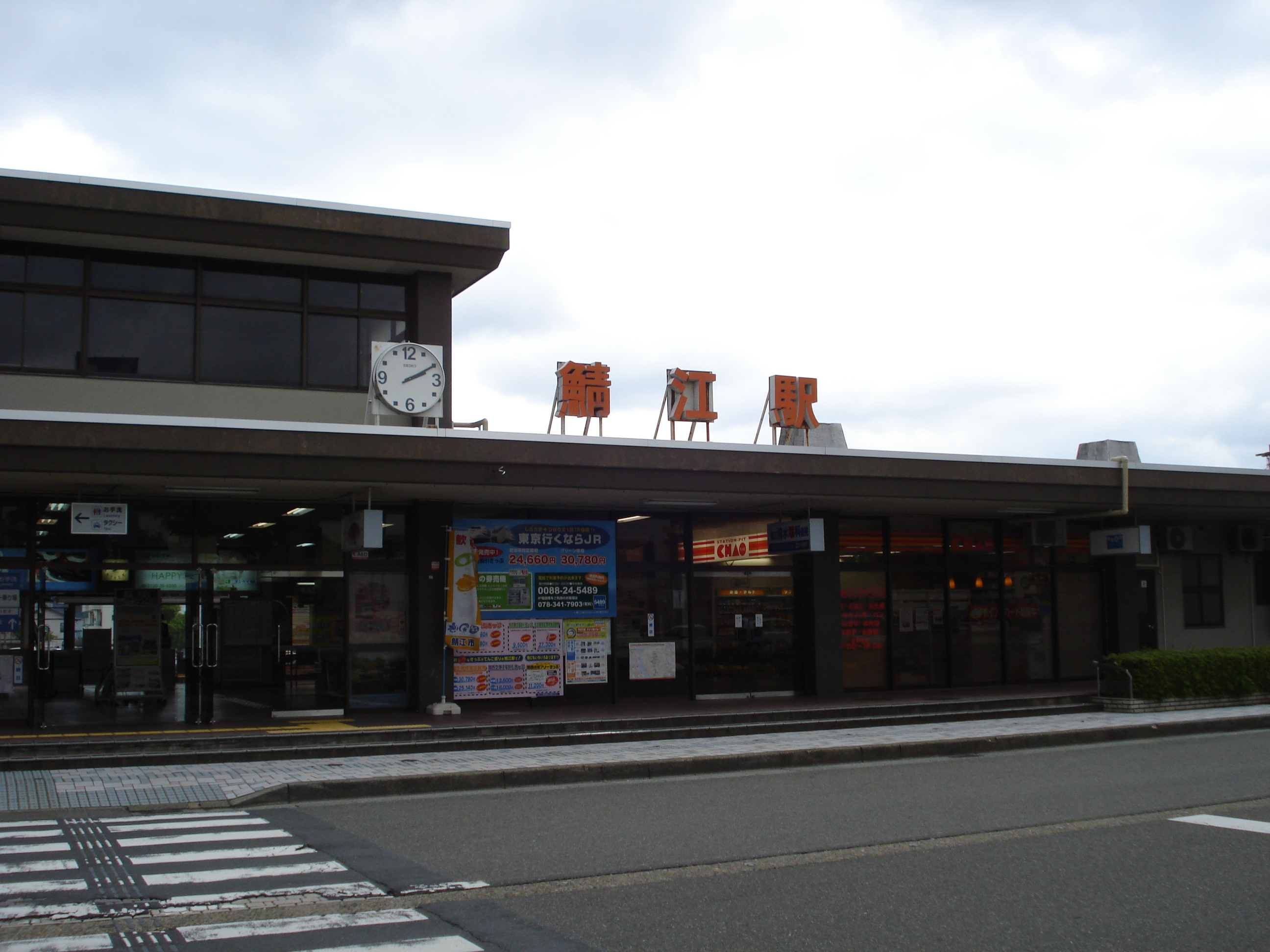 Sabae Station of JR West, in Sabae, Fukui Prefecture, Japan.